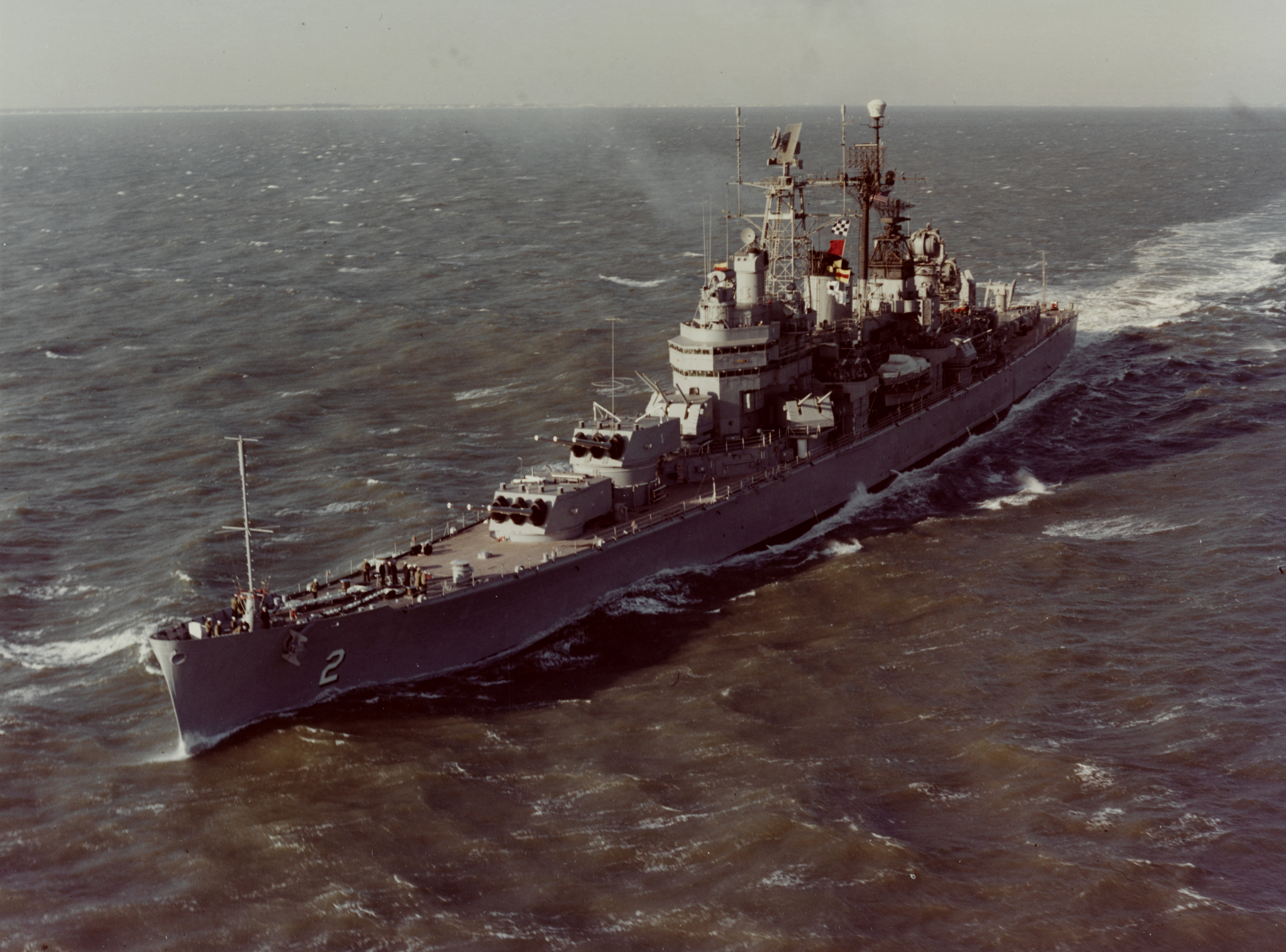 The U.S. Navy guided missile cruiser USS Canberra (CAG-2) underway on 9 January 1961. Note her radar arrangement: CXRX was moved forward from the mainmast, SPS-29 was fitted on the mainmast and SPS-13 was fitted aft. Canberra was the only ship ever equipped with SPS-13.